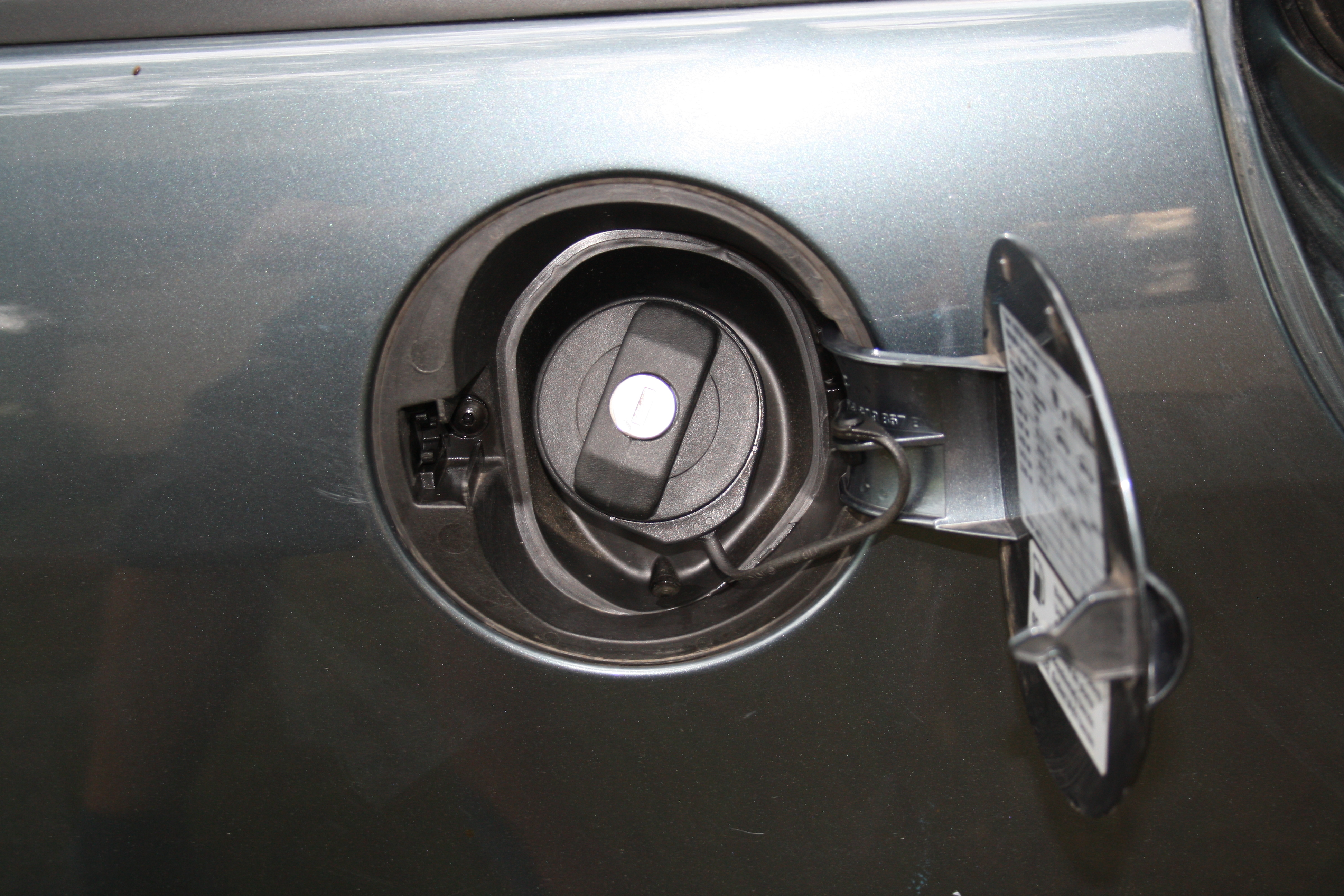 Opened gasoline reservoir of Škoda Fabia I.